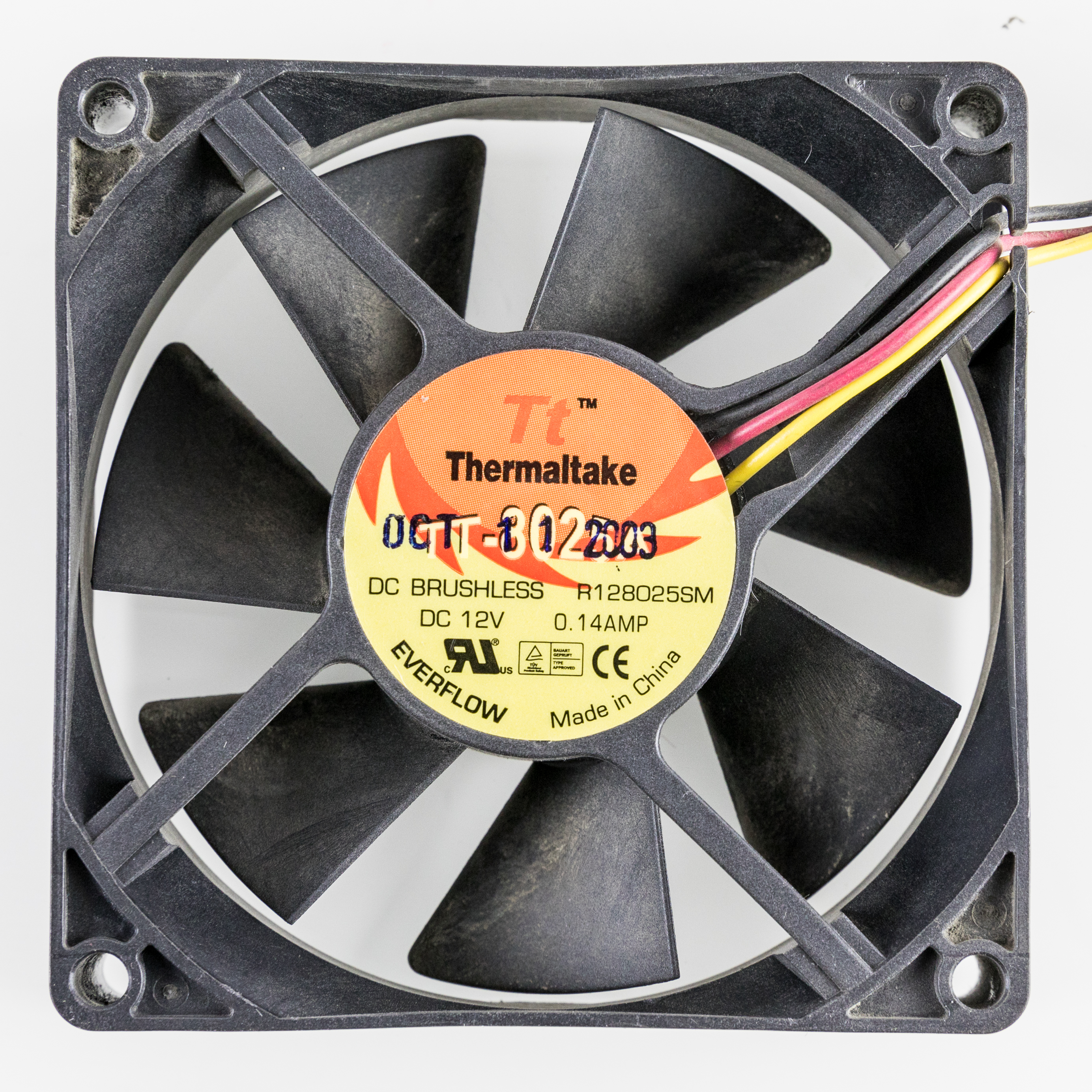 Thermaltake TT-8025A - computer cooling fan